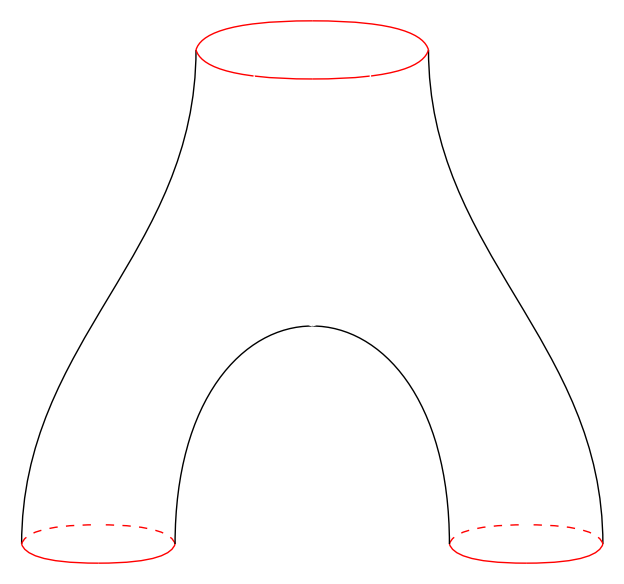 A pair of pants in the mathematical sense, i.e. a compact surface of genus 0 with 3 boundary components (colored red).